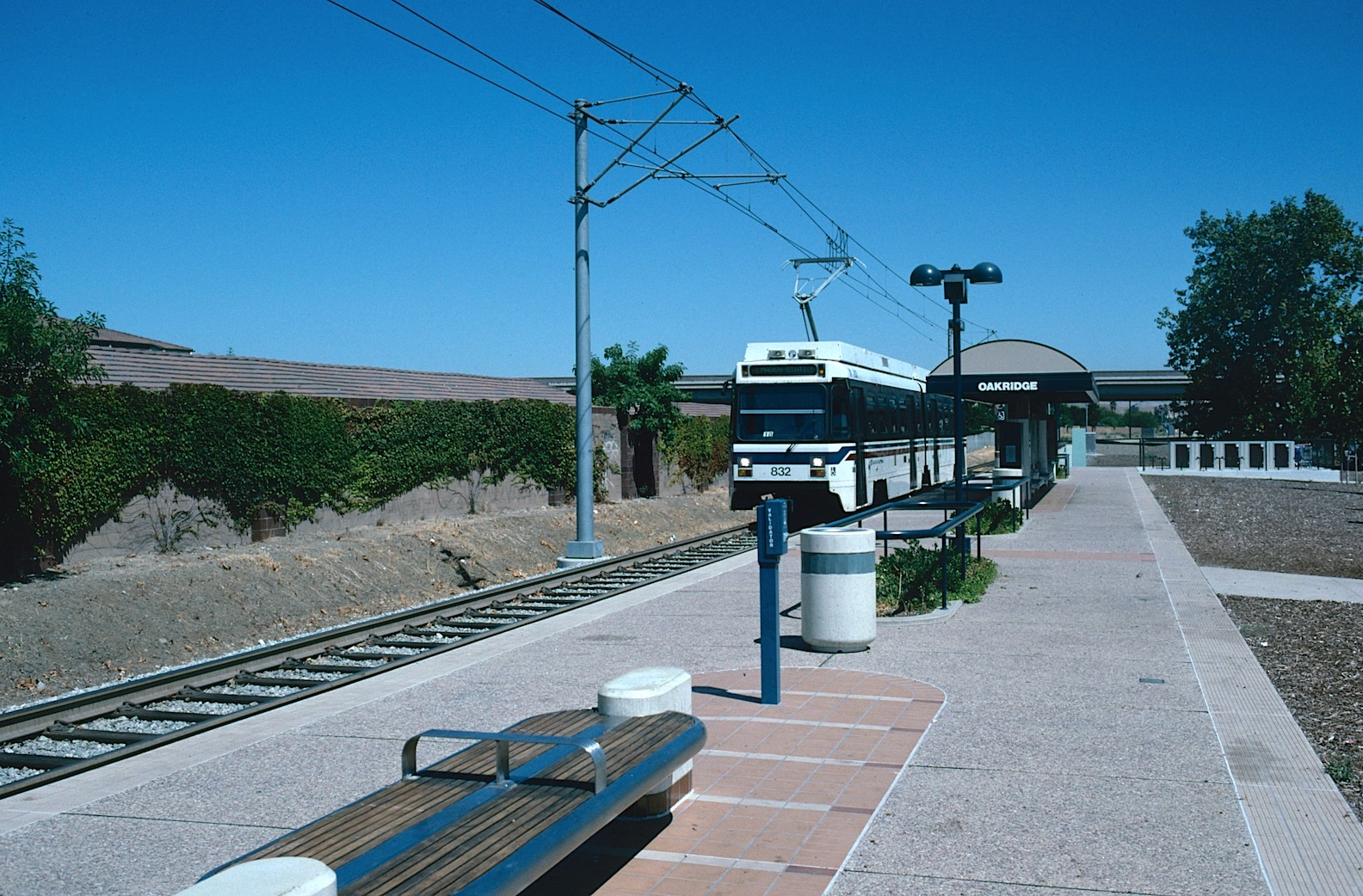 Oakridge station of the Santa Clara County Transit light rail system in 1993, with UTDC-built car 832 arriving, southbound on the Almaden Shuttle service. This station closed in 2019, with the discontinuation of service on the short branch (off of the main line) to Almaden. (The Santa Clara County Transit District and its parent, the umbrella organization known as the Santa Clara County Transportation Agency, were replaced by the Santa Clara Valley Transportation Authority in 1995.)